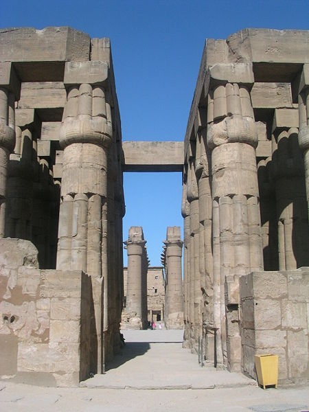 Luxor Temple February 2007